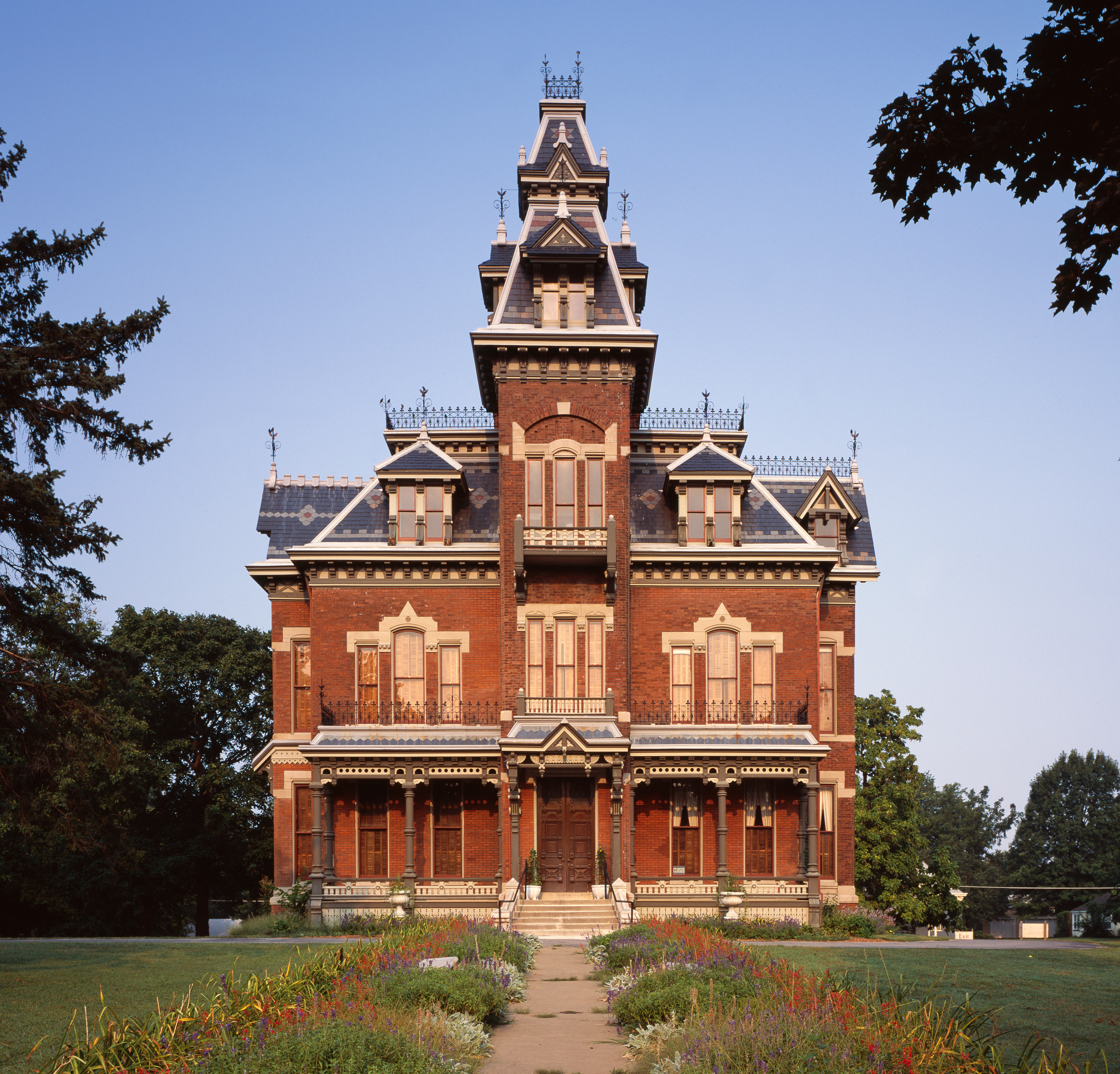 Title: Vaile Mansion, Independence, Missouri Physical description: 1 transparency : color ; 4 x 5 in. or smaller. Notes: Title, date, and keywords provided by the photographer.; Digital image produced by Carol M. Highsmith to represent her original film transparency; some details may differ between the film and the digital images.; Forms part of the Selects Series in the Carol M. Highsmith Archive.; Gift and purchase; Carol M. Highsmith; 2011; (DLC/PP-2011:124).; Credit line: Photographs in the Carol M. Highsmith Archive, Library of Congress, Prints and Photographs Division.